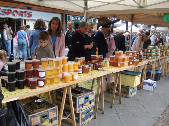 A bewildering choice of honey! Haverfordwest's annual French market is a popular place to buy products, such as cheese, honey and salami, brought over from France and not normally available in West Wales. Of course, had the attempted French invasion of Fishguard in 1797 been successful, things might have been very different!